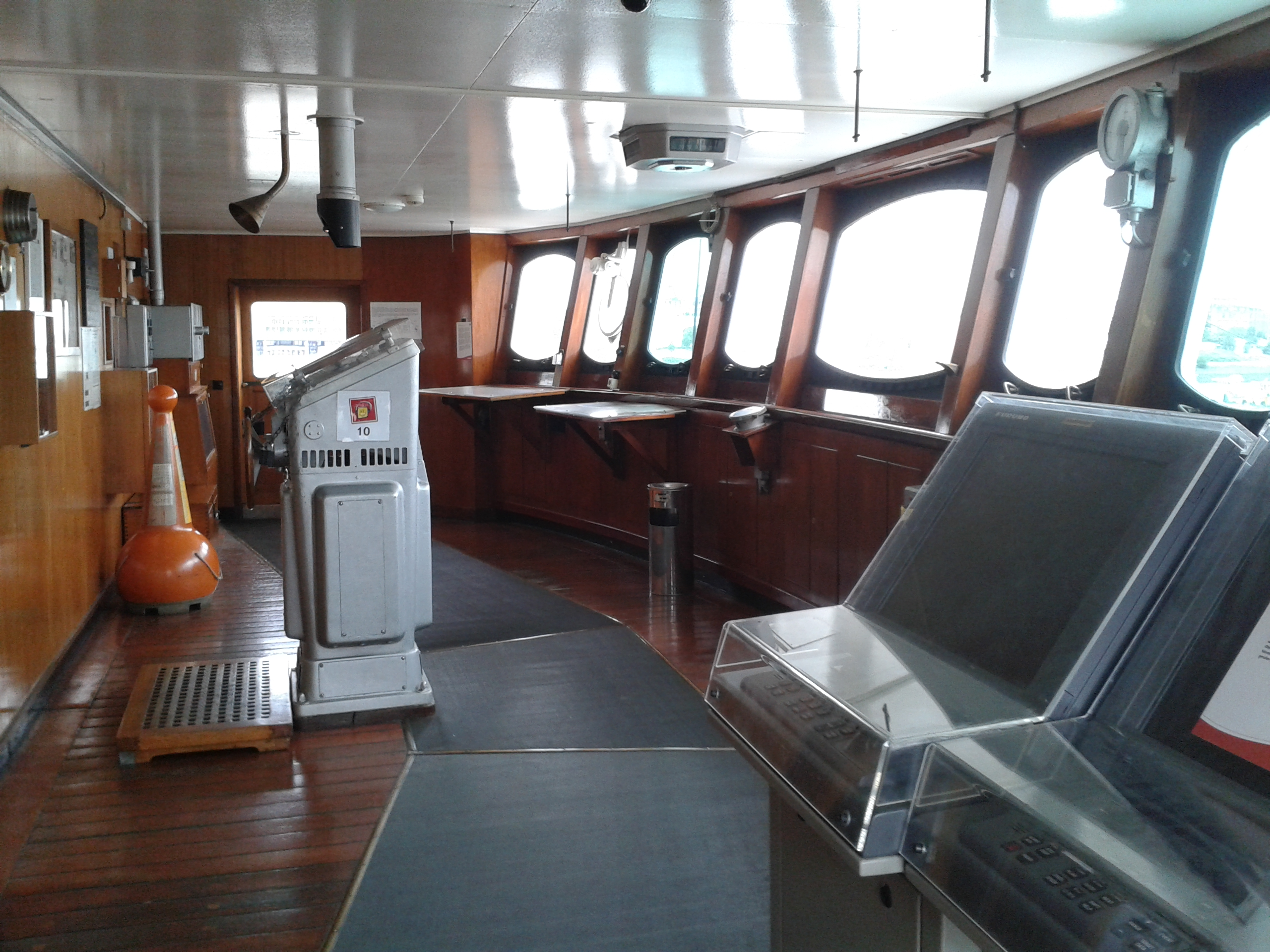 Bridge of the "Cap San Diego" at Hamburg, September 2015